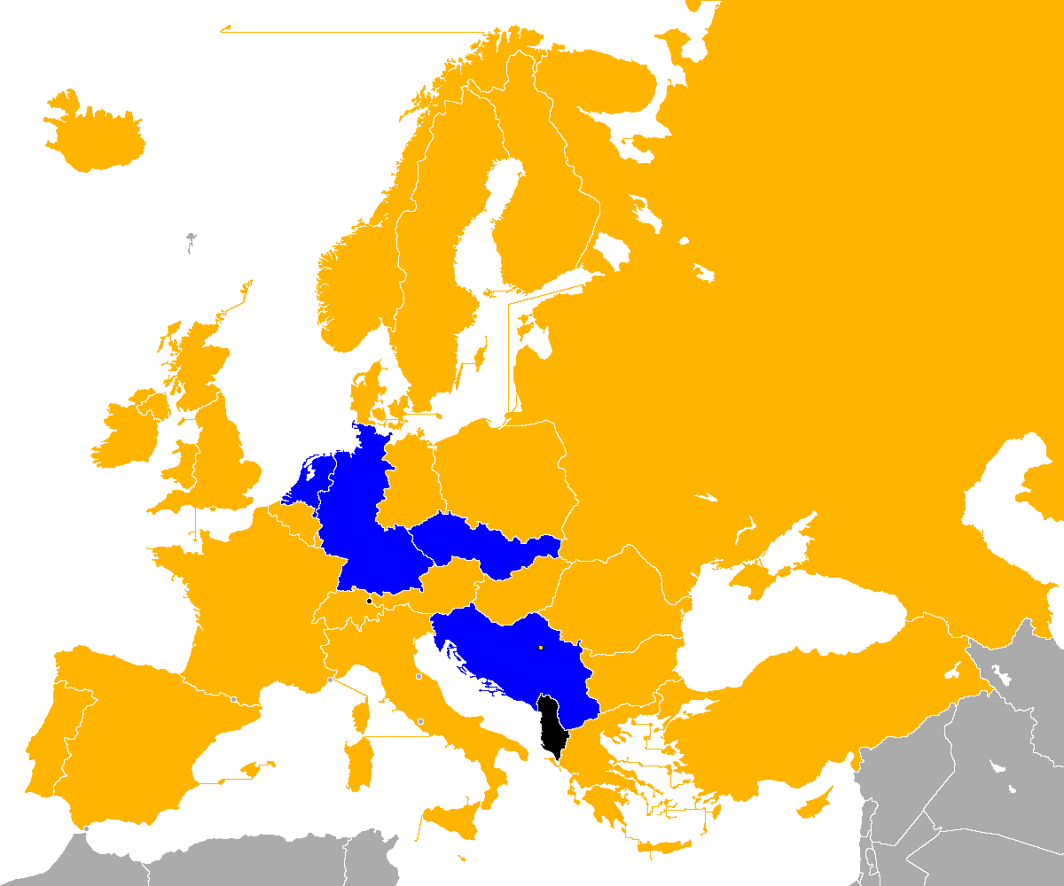 Euro 1976 qualifiers